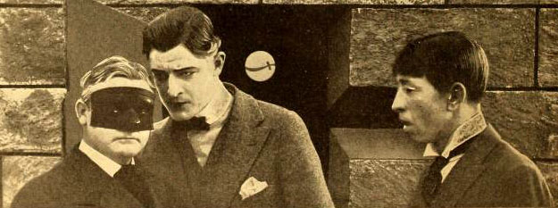 Advertisement in Moving Picture World for the American film serial The Secret of the Submarine (1915).